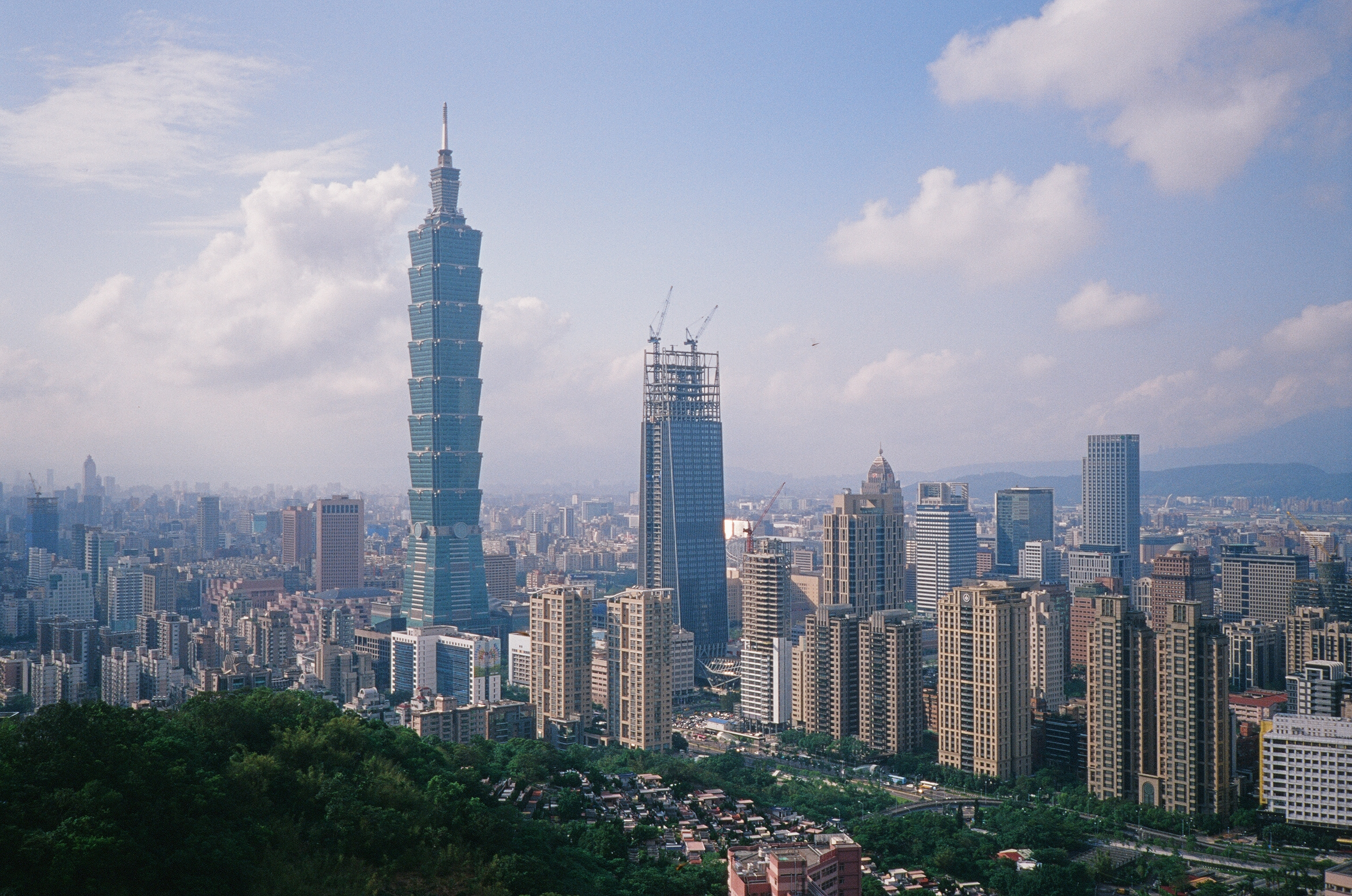 View of the impressive Taipei, Taiwan skyline from Mt. Elephant taken in 2016